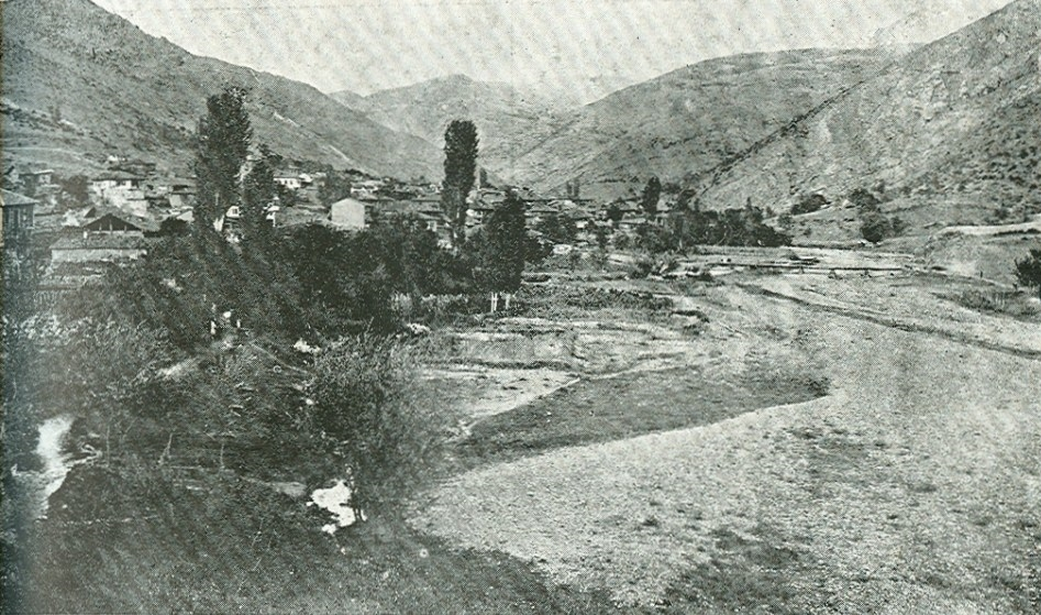 Zletovo in the begining of XX c.